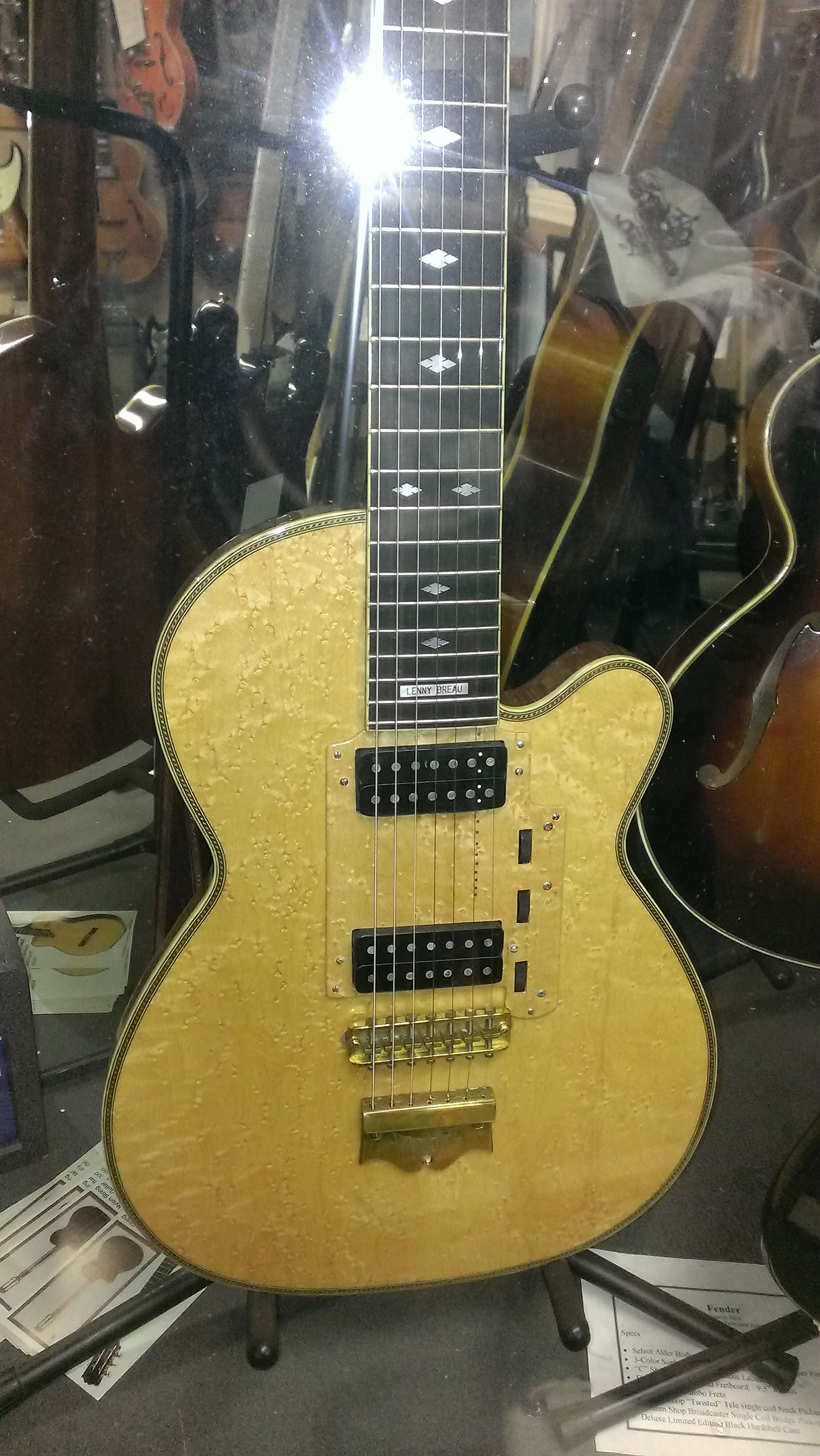 The custom-built 7-String guitar used by guitar legend Lenny Breau, on display at The Guitar Shoppe, in Laguna Beach, California.